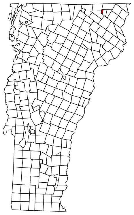 Map of Vermont towns with Warners Grant highlighted